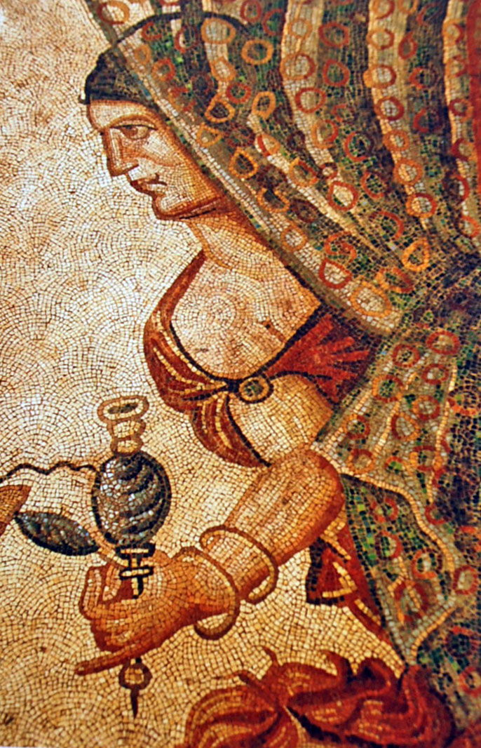 Ancient roman mosaic of the roman vila of La Olmeda in Pedrosa de la Vega (Palencia, Castile and León). Only known evidence of transparency using tesserae (on woman's veil).